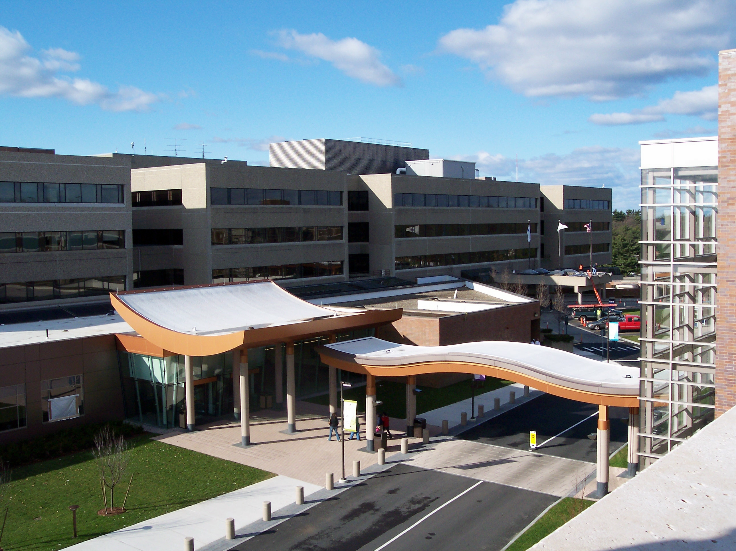 Photograph of Lahey Clinic in Burlington, Massachusetts, United States.